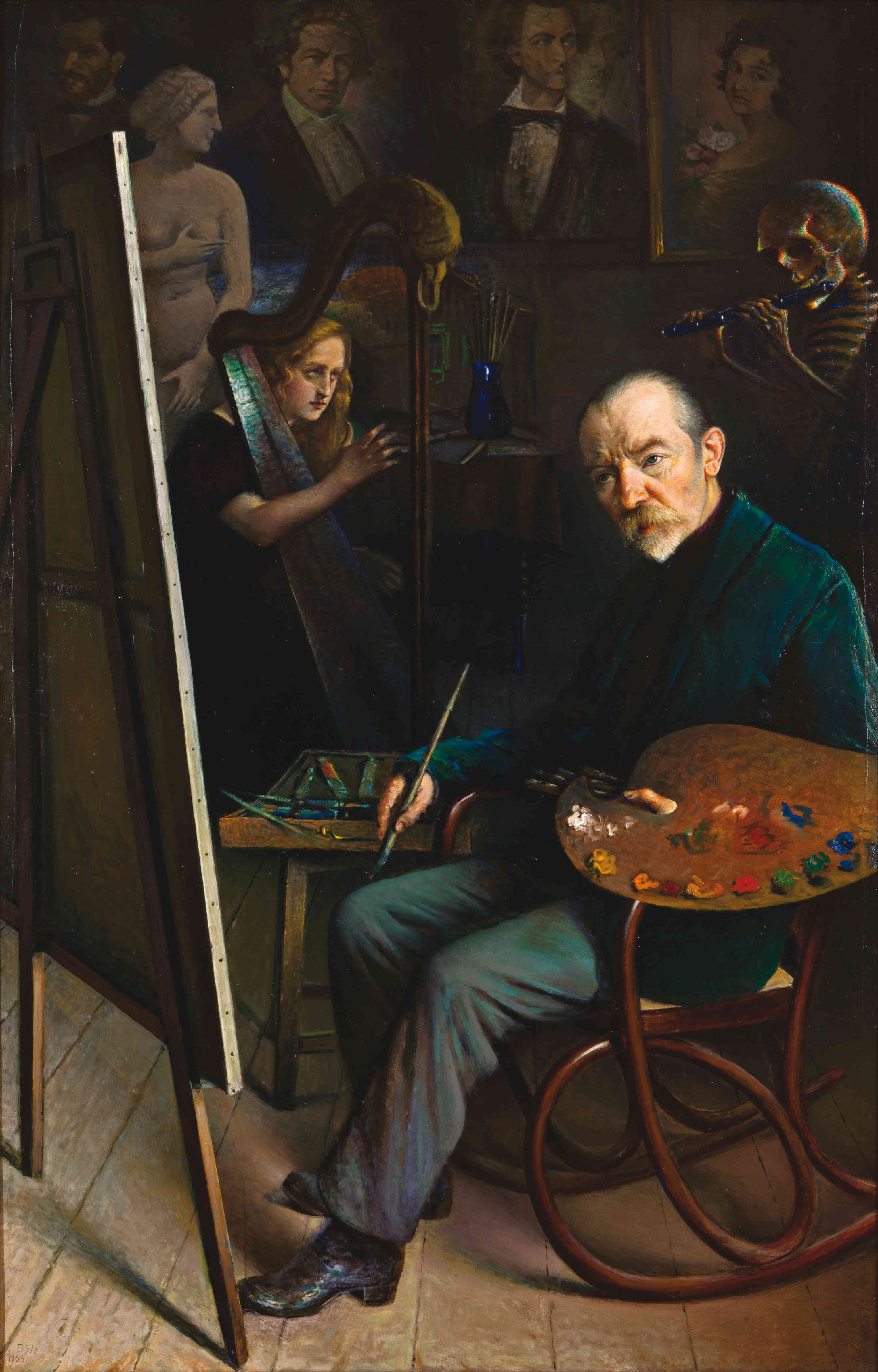 Self-Portrait with Muse and with Death.label QS:Len,"Self-Portrait with Muse and with Death."label QS:Lru,"Автопортрет с Музой и Смертью."